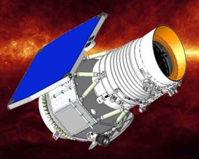 Artist's concept of Wide-field Infrared Survey Explorer. The Wide-field Infrared Survey Explorer mission will survey the entire sky in a portion of the electromagnetic spectrum called the mid-infrared with far greater sensitivity than any previous mission or program ever has. The survey will consist of over a million images, from which hundreds of millions of astronomical objects will be catalogued, providing a vast storehouse of knowledge about the solar system, the Milky Way, and the universe. The mission is scheduled to launch no earlier than Dec. 9 from Vandenberg Air Force Base in California. JPL manages the Wide-field Infrared Survey Explorer for NASA's Science Mission Directorate.